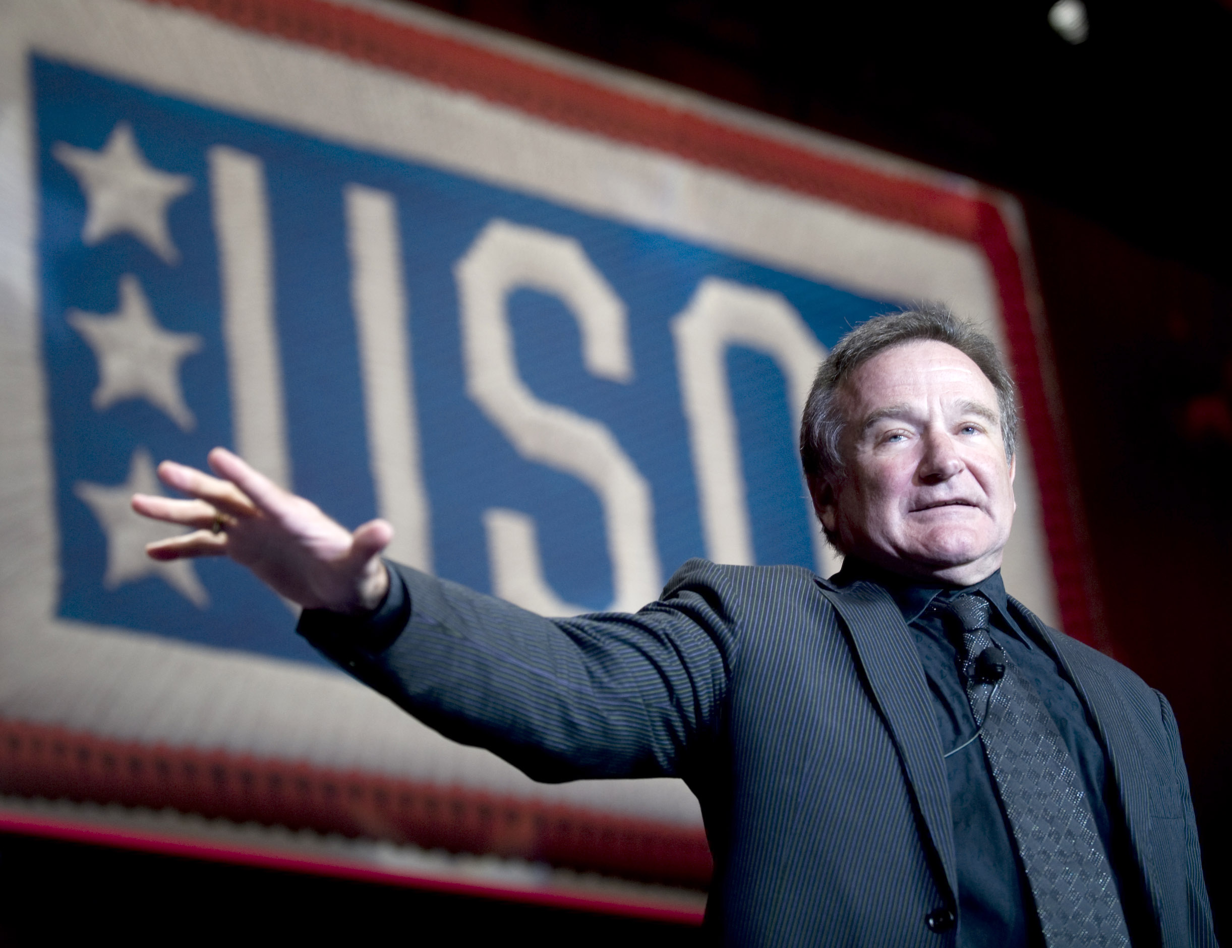 Comedian and actor Robin Williams performs at the 2008 USO World Gala in Washington, D.C.